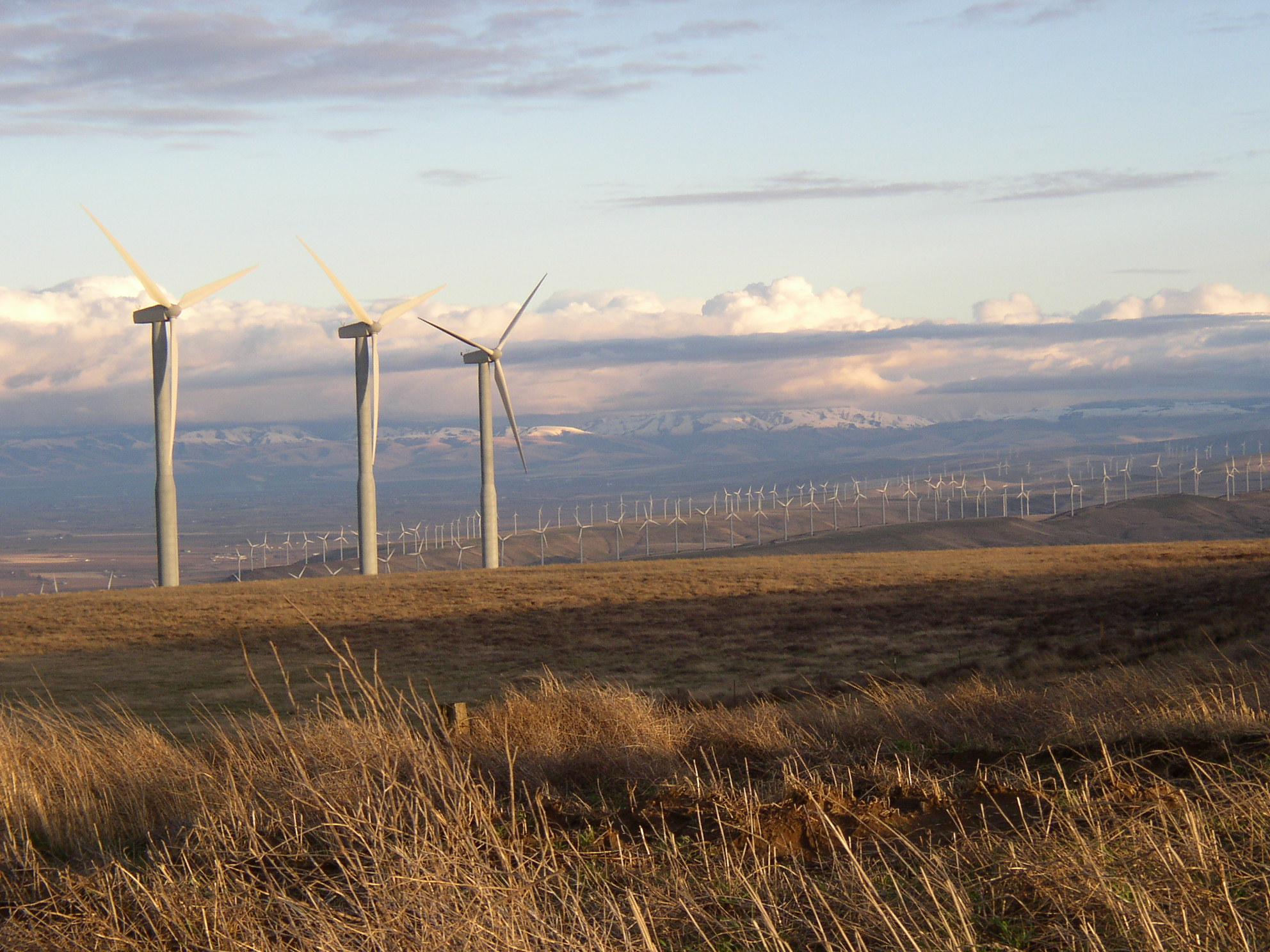 Wind Turbines above Walla Walla River in Washington. View is east toward the Blue Mountains beyond Walla Walla, Washington. (January 2006) Photographed by Umptanum.